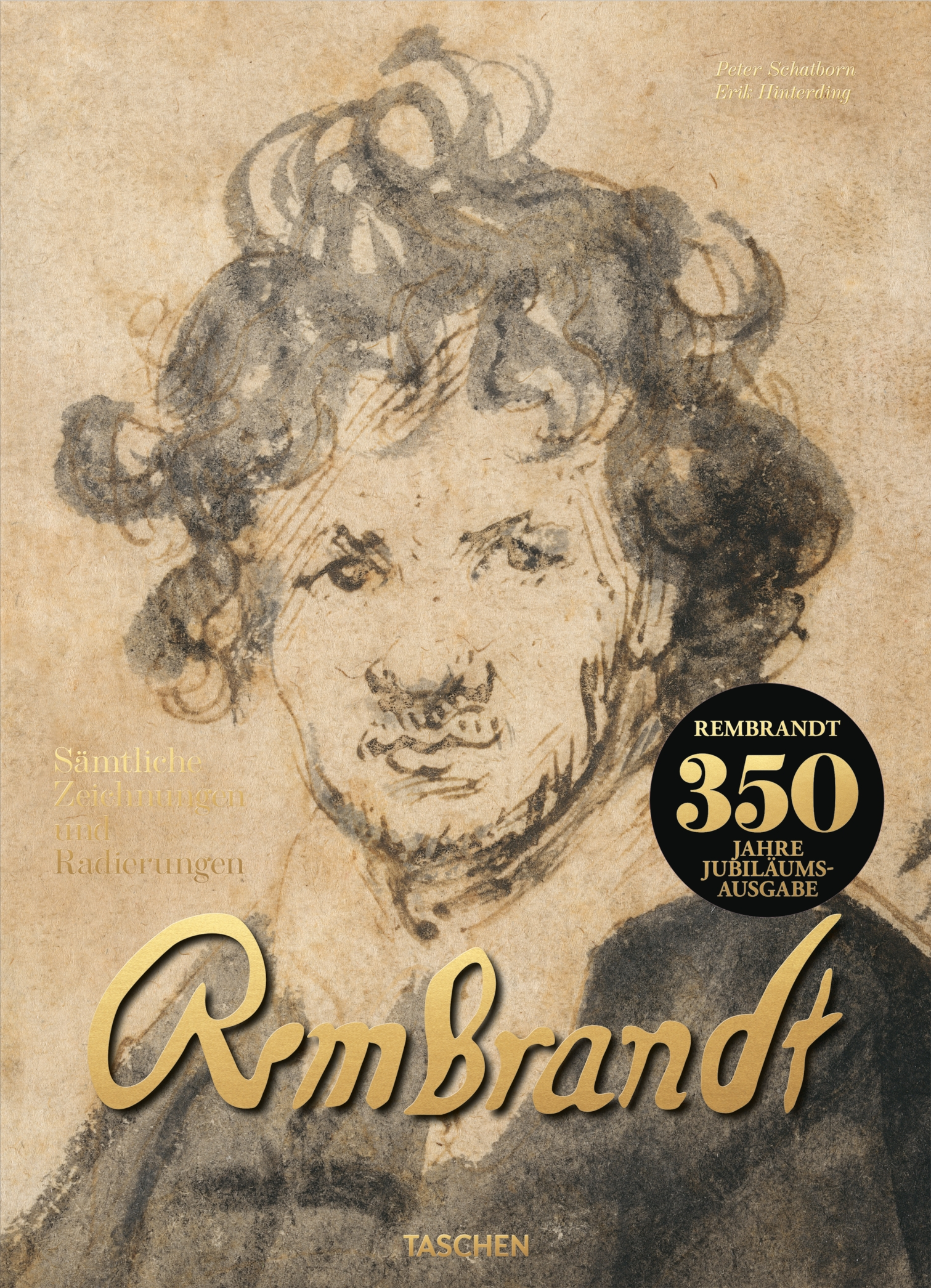 Book cover: Rembrandt. Sämtliche Zeichnungen und Radierungen. Taschen Verlag, Cologne 2019